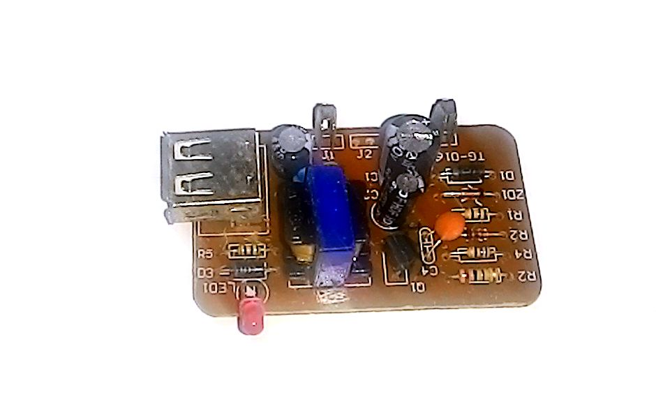 Internal adapter circuit